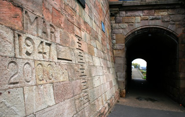 Archway Under Trent Bridge. Providing pedestrian access along the embankment. On the wall are water marks when the river has been particularly high. Shown is the 1947 mark when the river reached 80' above datum and caused extensive flooding in the Meadows.